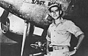 Lieutenant Colonel Gerald R. Johnson, the former commander of the USAAF 49th Fighter Group. (USAAF Photo)